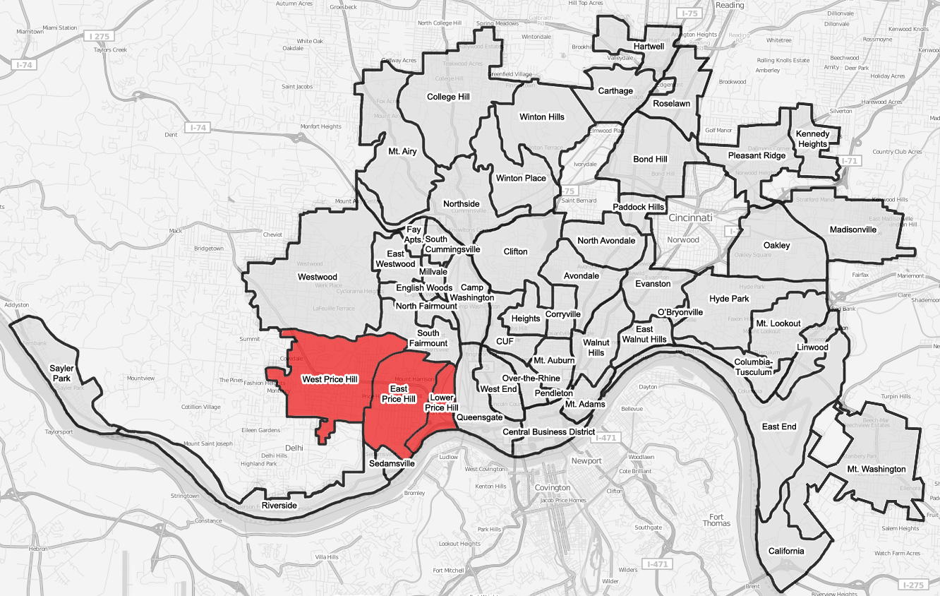 A map of the neighborhoods of Price Hill within Cincinnati, Ohio. Neighborhood lines are based on information from This street map is derived from a free map.